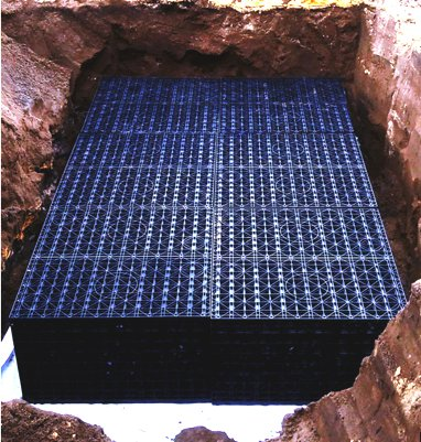 Polypropylene stormwater soakwell system installed in permeable soil. Also known as a dry well. This installation is occurring in Perth, Western Australia in November 2015. Photo Released by Perth Soakwells Pty Ltd